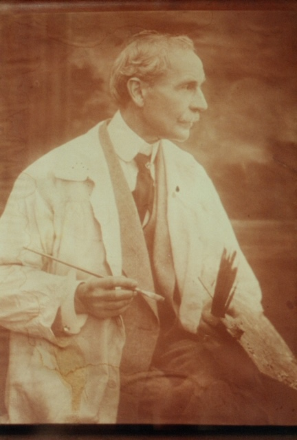 Photo of the Painter Paul Poetzsch in his Studio